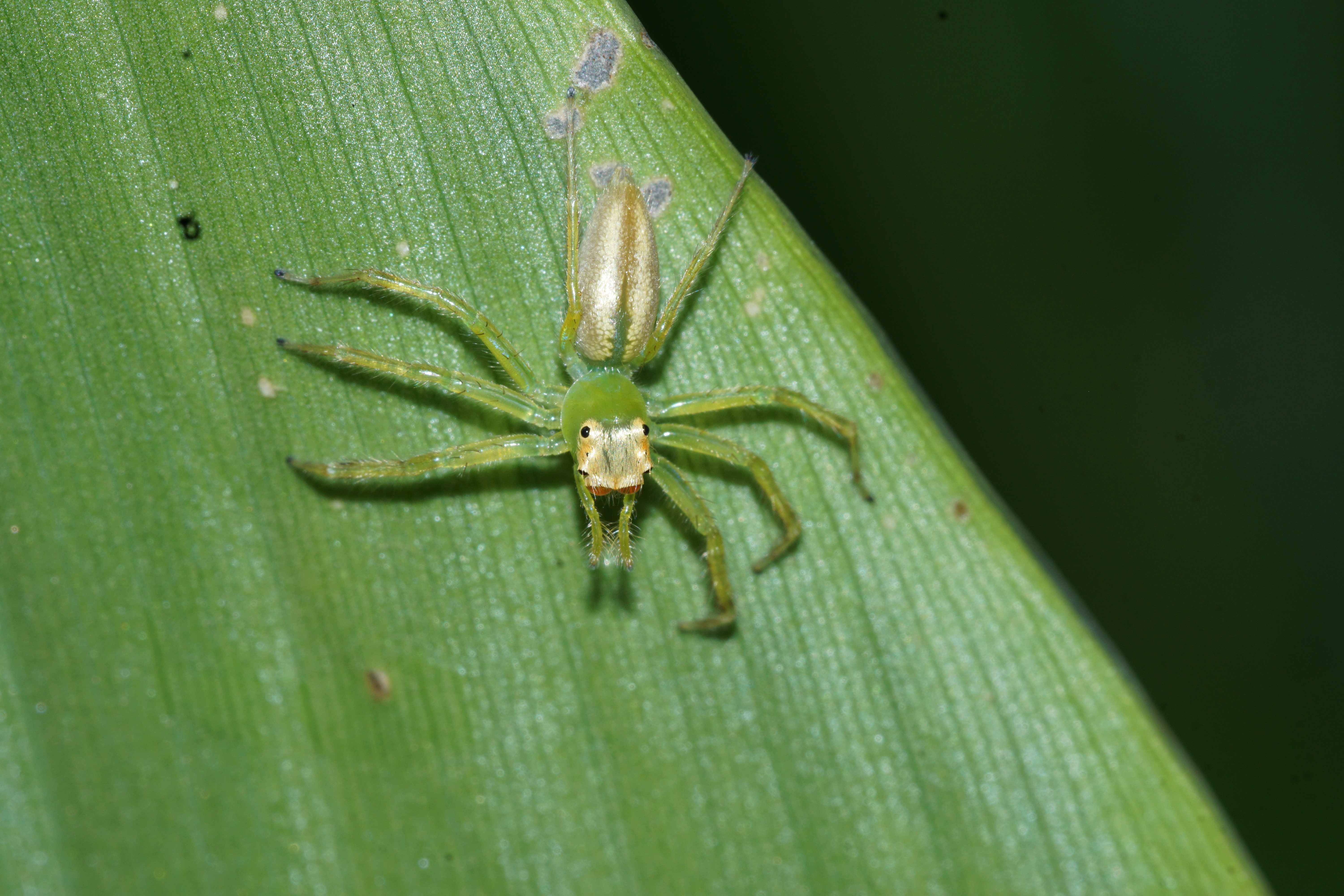 Spider